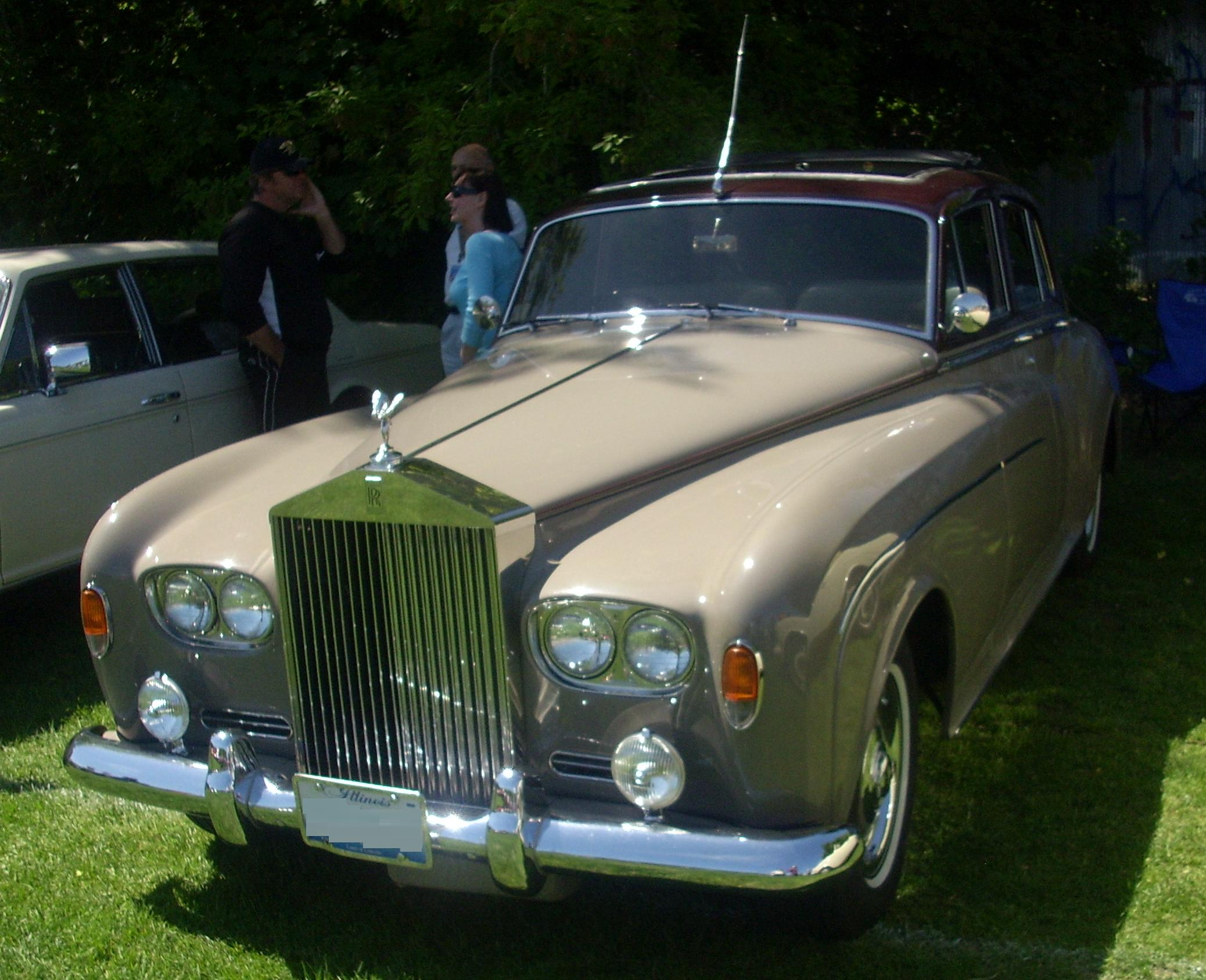 1964 Rolls-Royce Silver Cloud photographed at the 2008 Hudson British Car Show.